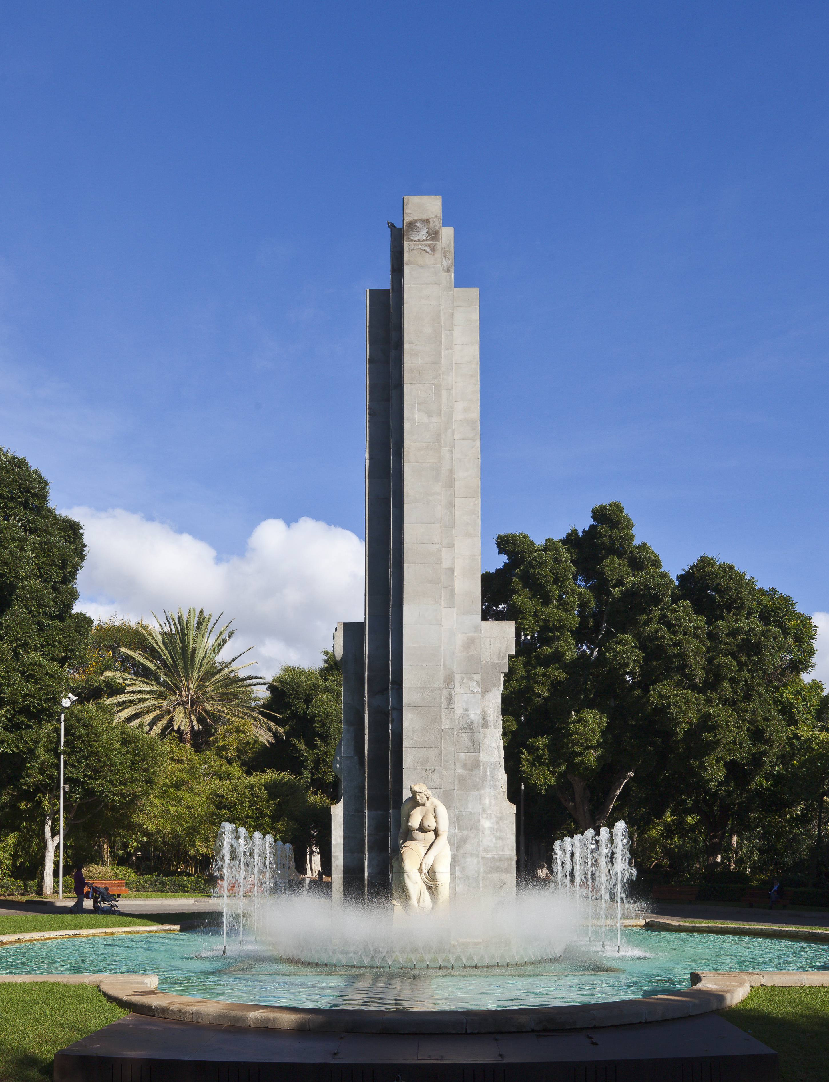 Park García Sanabria, Santa Cruz de Tenerife, Spain